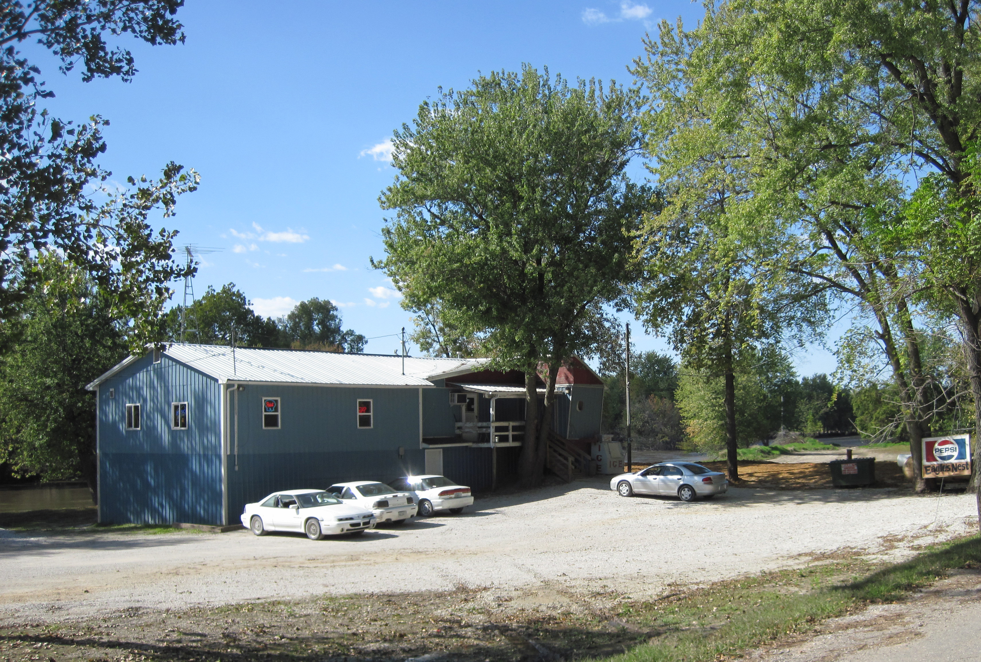 Coppock, Iowa, Eagles Nest